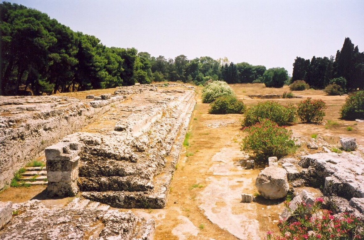 Altar of Hiero II (Syracuse). Picture taken by Tim Bekaert (July 2003).